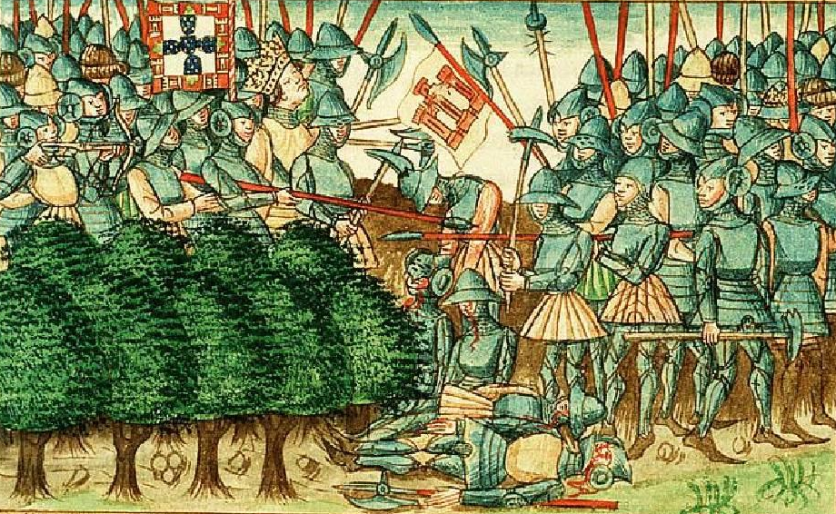 The battle of Aljubarrota, in a c. 1450-1460 translation of Froissart's Chronicles.